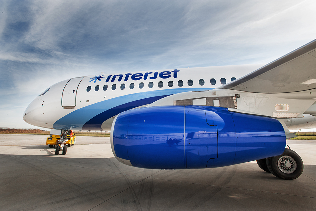 The aircraft, Manufacture Serial Number 95023, is the first aircraft to be delivered to the Mexican carrier Interjet, which is the launch customer in the western market. In total Interjet ordered 20 SSJ100 aircraft in a 93 seats configuration. The livery features white and blue stripes according to the customer’s paint scheme. Activities on the aircraft are undergoing to deliver the first Interjet SSJ100 by spring 2013.